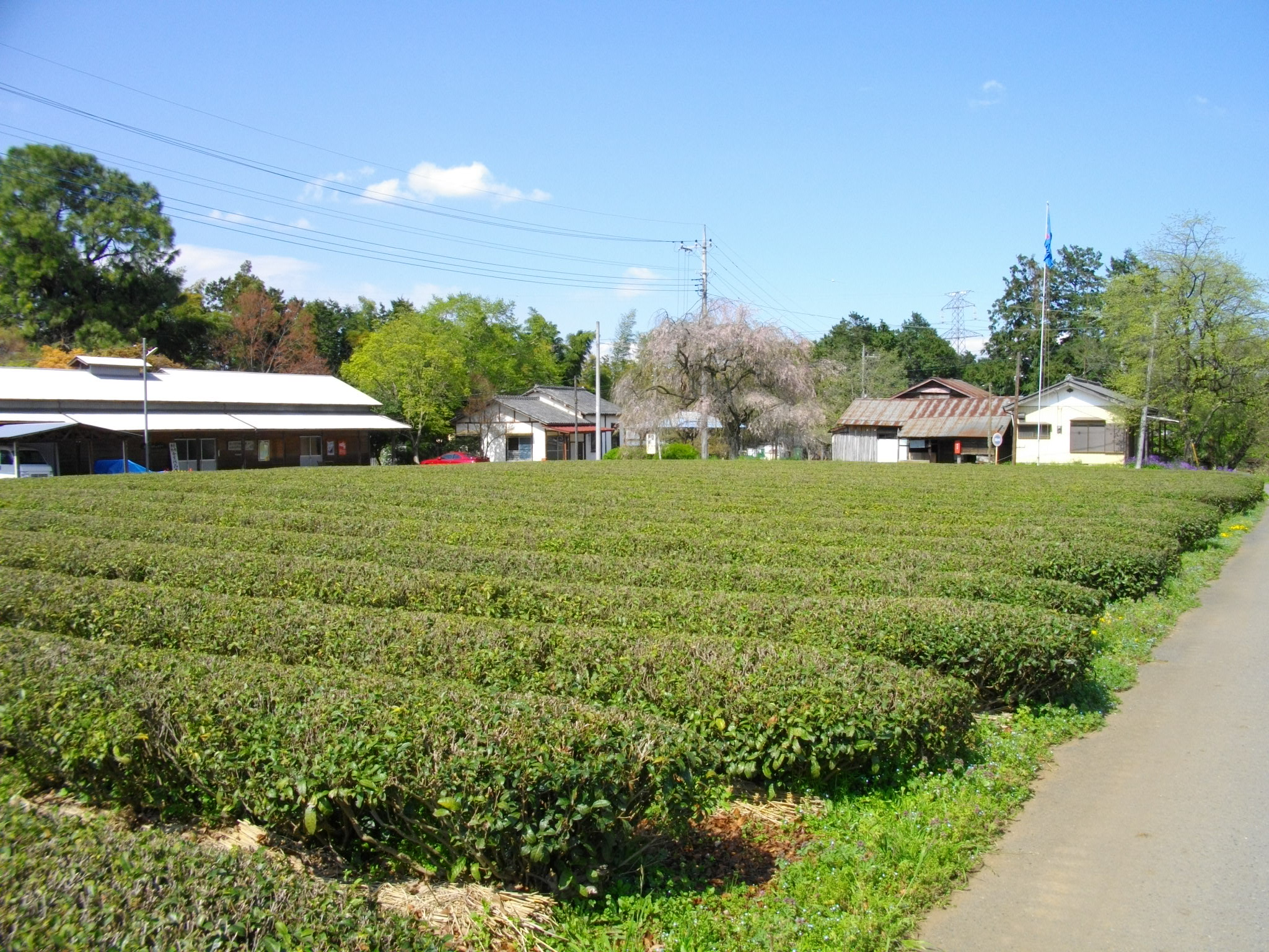 Atarashiki-mura Tea Plantation in Keroyama town, Saitama pref, Japan.